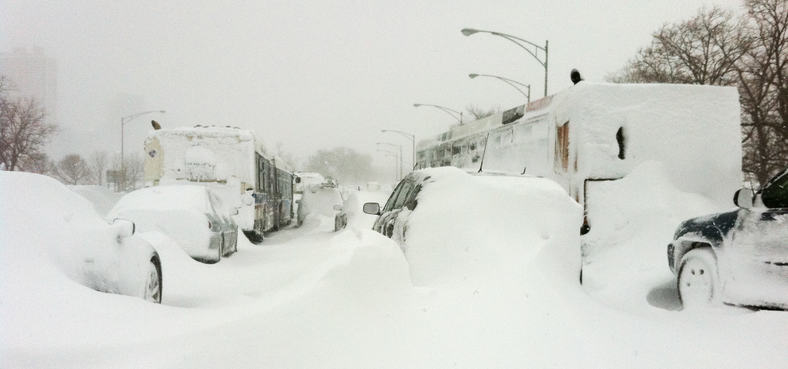 Cars covered in Snow on Lake Shore Drive Chicago Feb 2 2011 storm